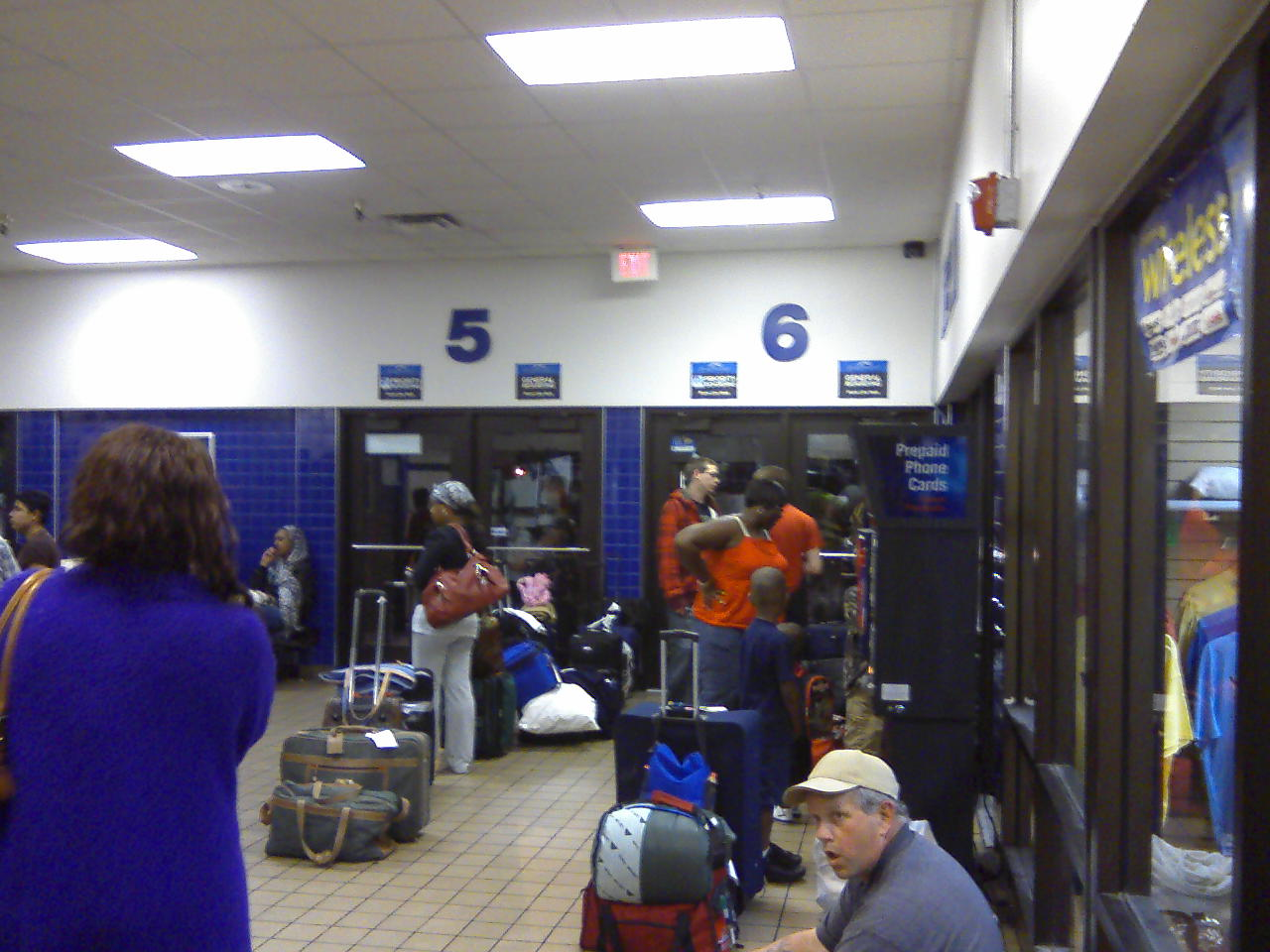 A Greyhound Lines station in Nashville, Tennessee during the morning of 24 May 2010.